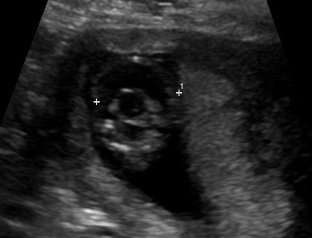 probably alobar holoprosencephalon on the level of mesencephalon in ultrasound